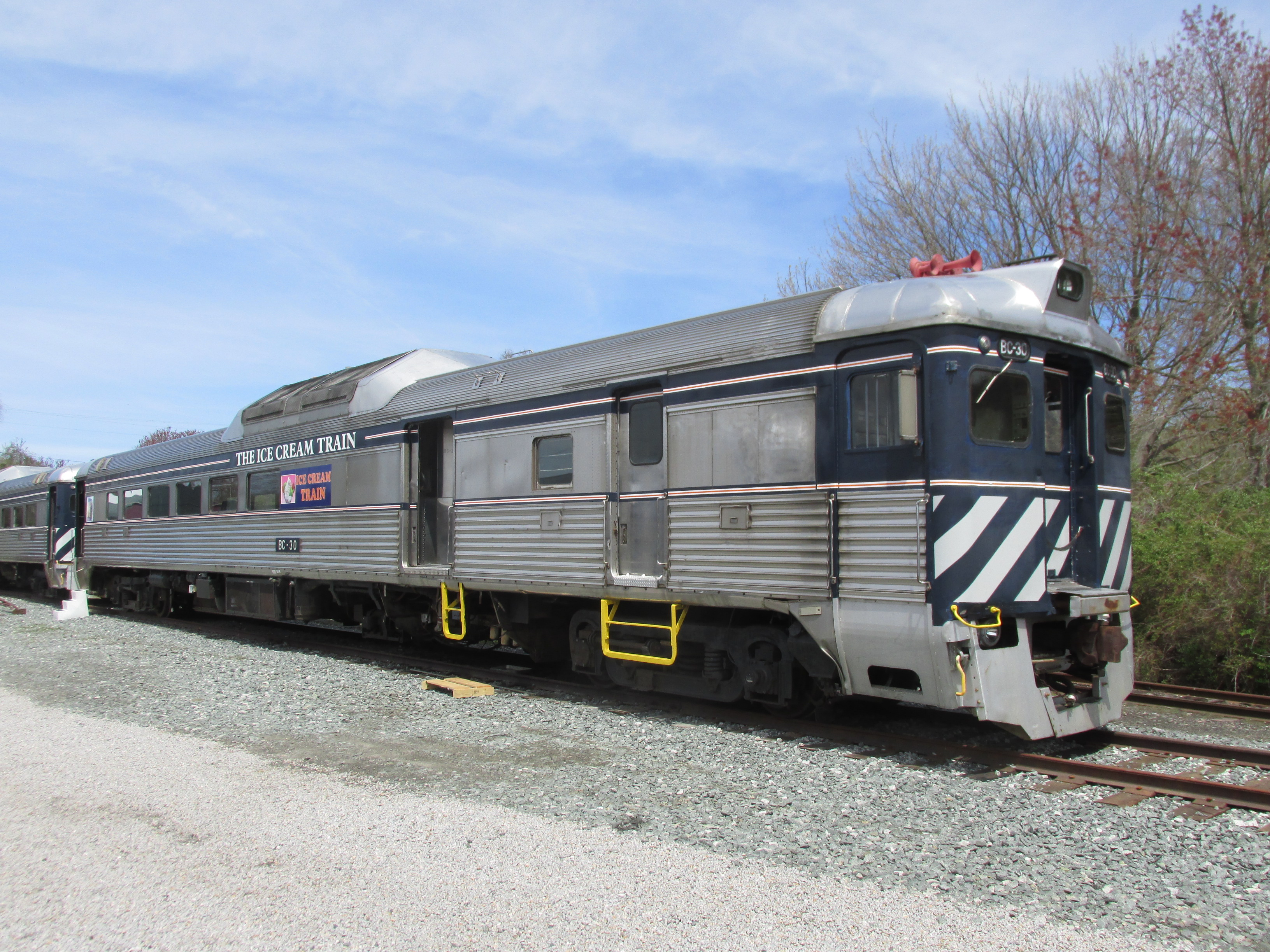 The Ice Cream Train, Melville Rhode Island - 2014